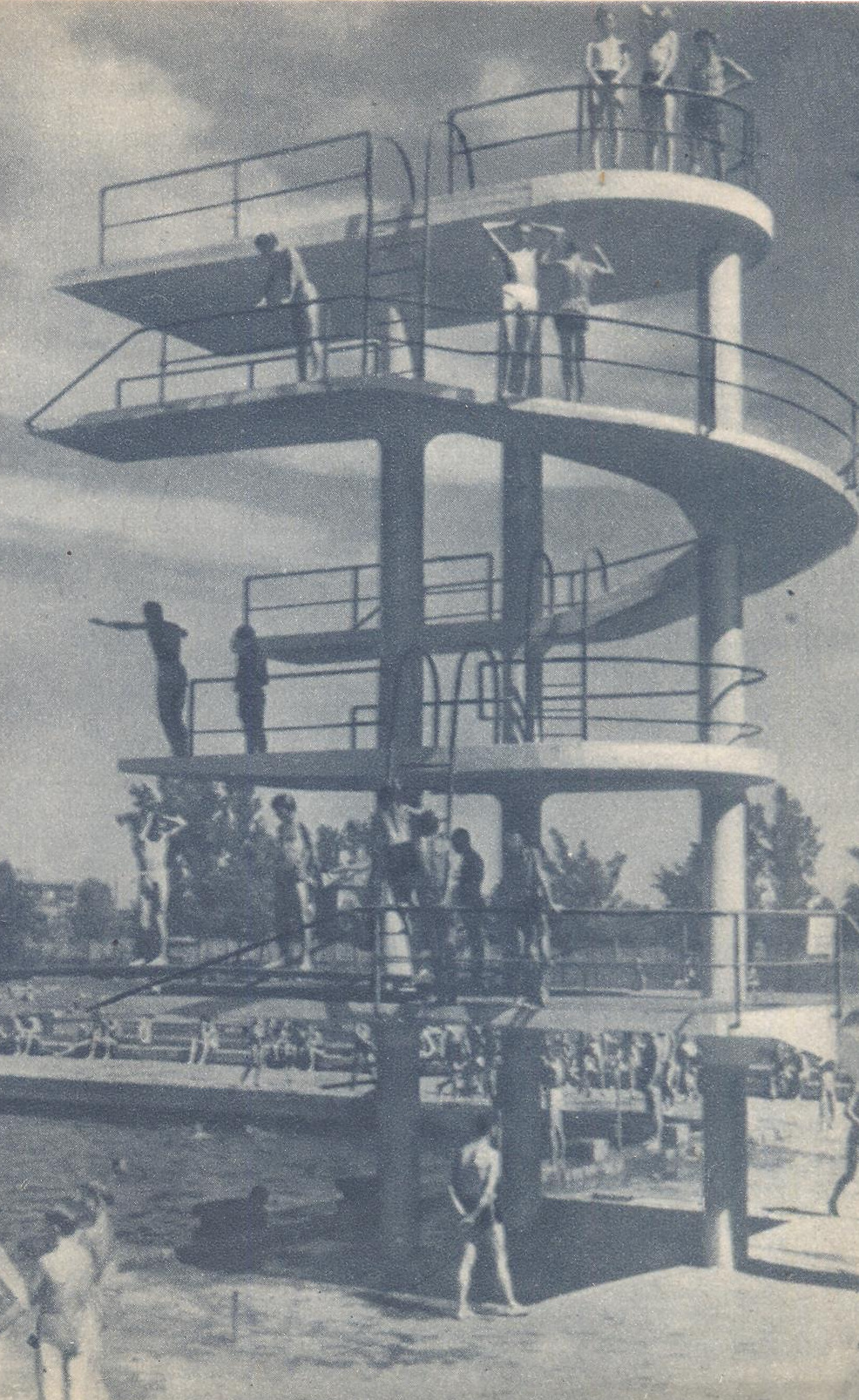 A 10-metre jumping tower at the Legia Warszawa Stadium in Warsaw, designed by Wacław Paszkowski, opened in November 1928.